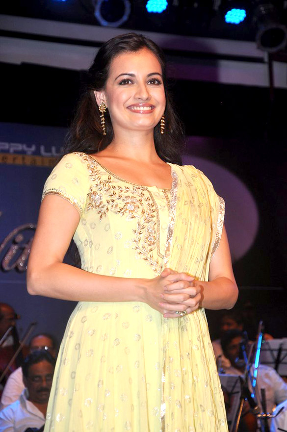 Dia mirza lakshmi kanth pyarelal nite